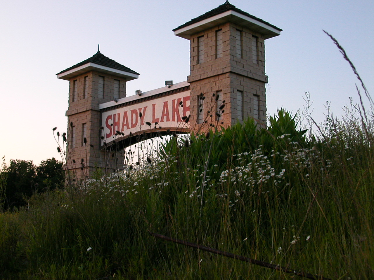 This is the gate of the former Shady Lake Park in Streetsboro, Ohio